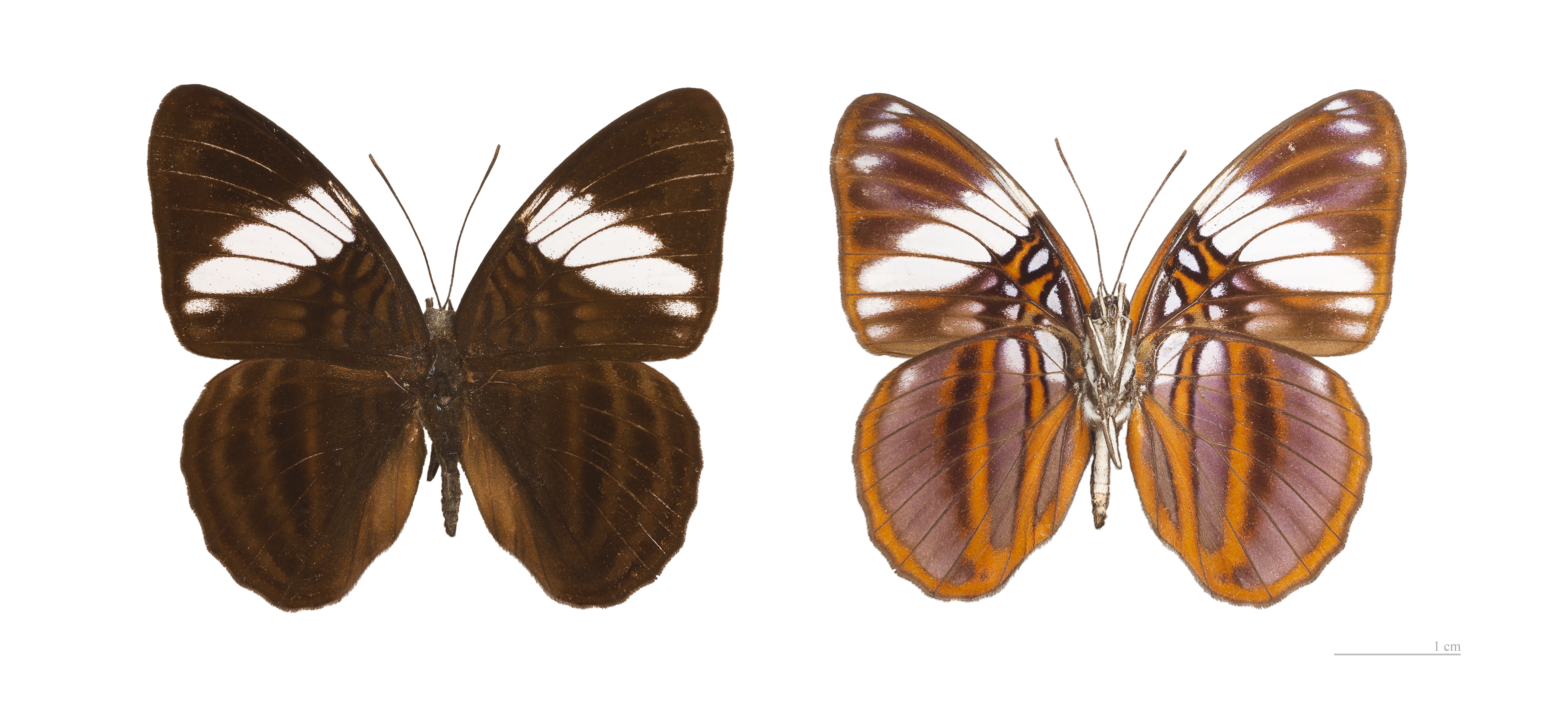 ♂ - Two views of same specimen Locality:Chapare Province, Bolivia